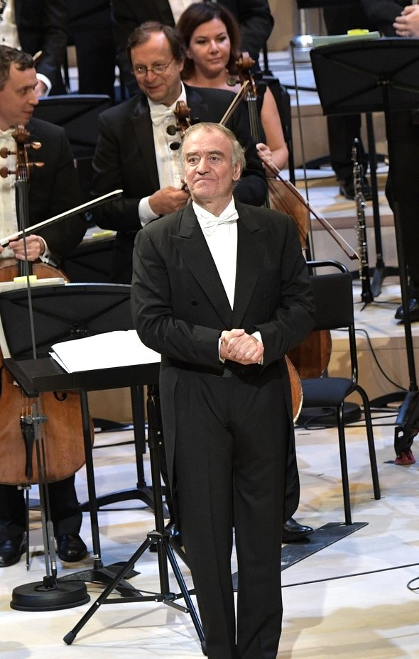 Opening of Zaryadye Concert Hall. Artistic Director of the Mariinsky Theatre Valery Gergiev.